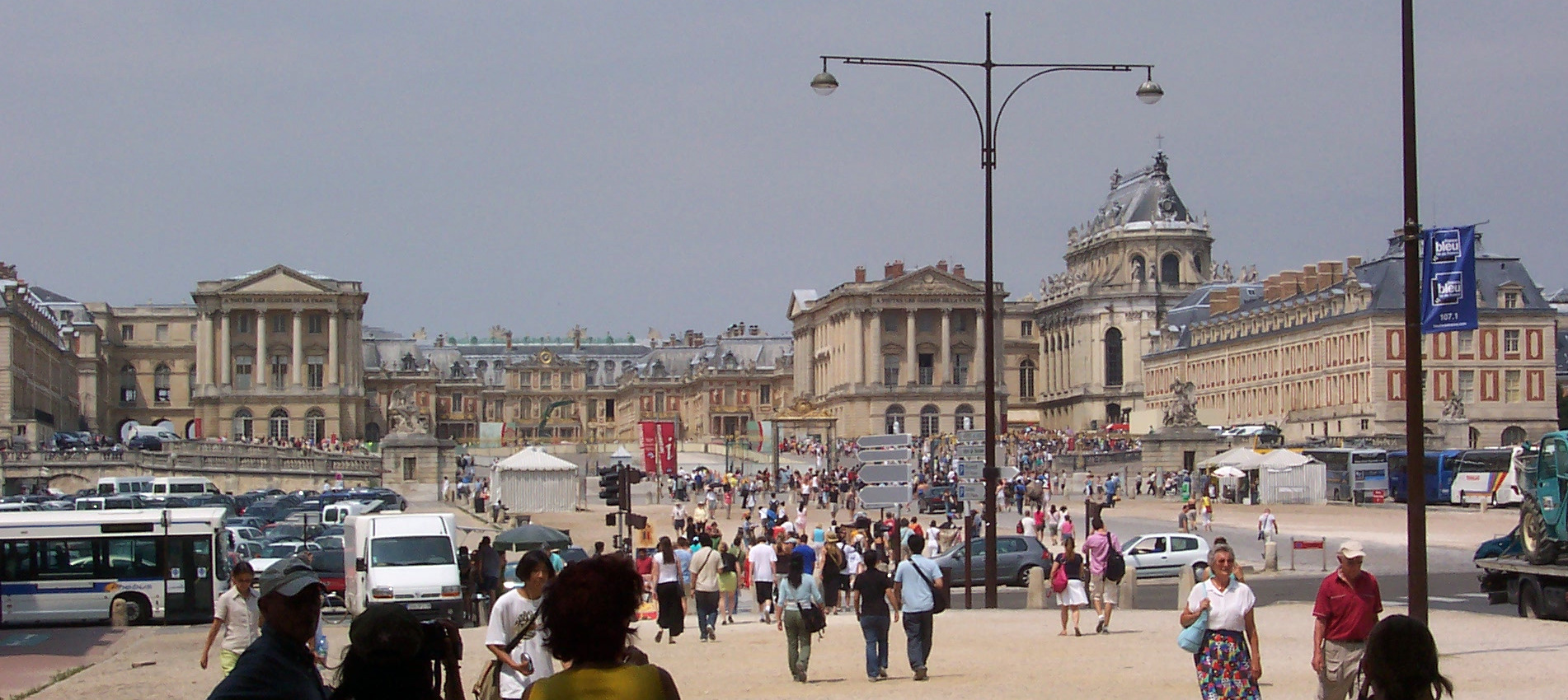 The Château de Versailles (or in English, the Palace of Versailles) is a royal château located in Versailles, 15 km from Paris. The front of the Palace of Versailles, full of tourists.